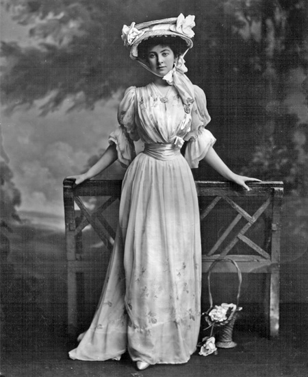 Constance Edwina Cornwallis-West, later Duchess of Westminster